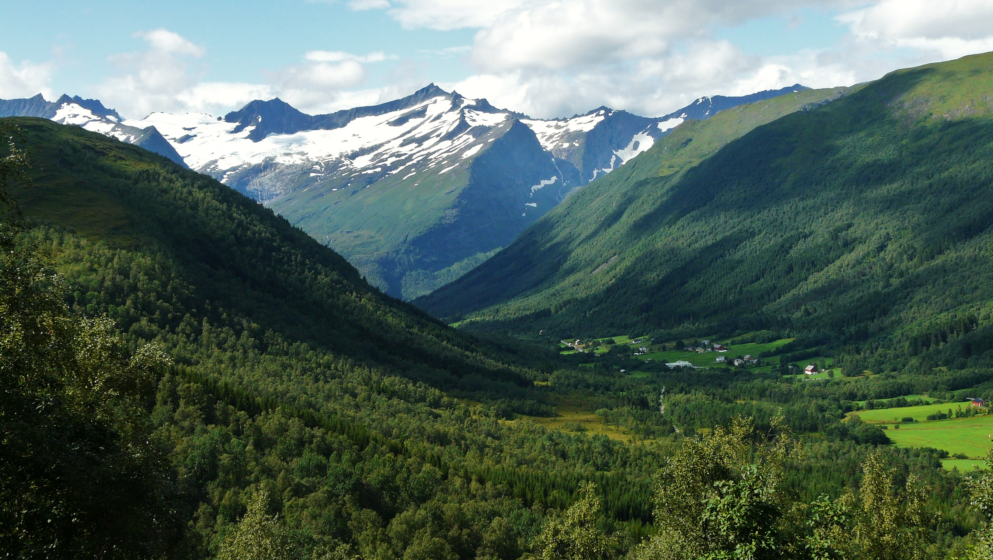 A view to Velledalen from the east by Riksvei 60 -road near by Myrdalen in 2008 August.